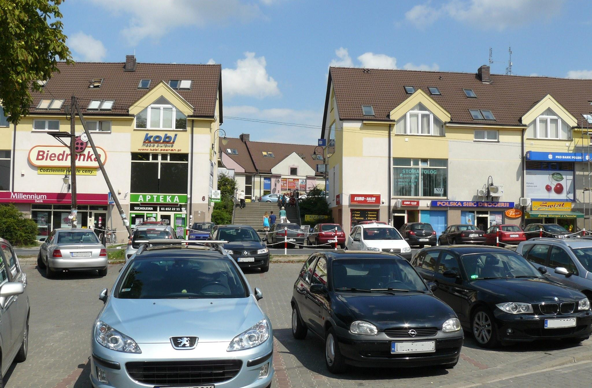 New Market in Suchy Las, PL.